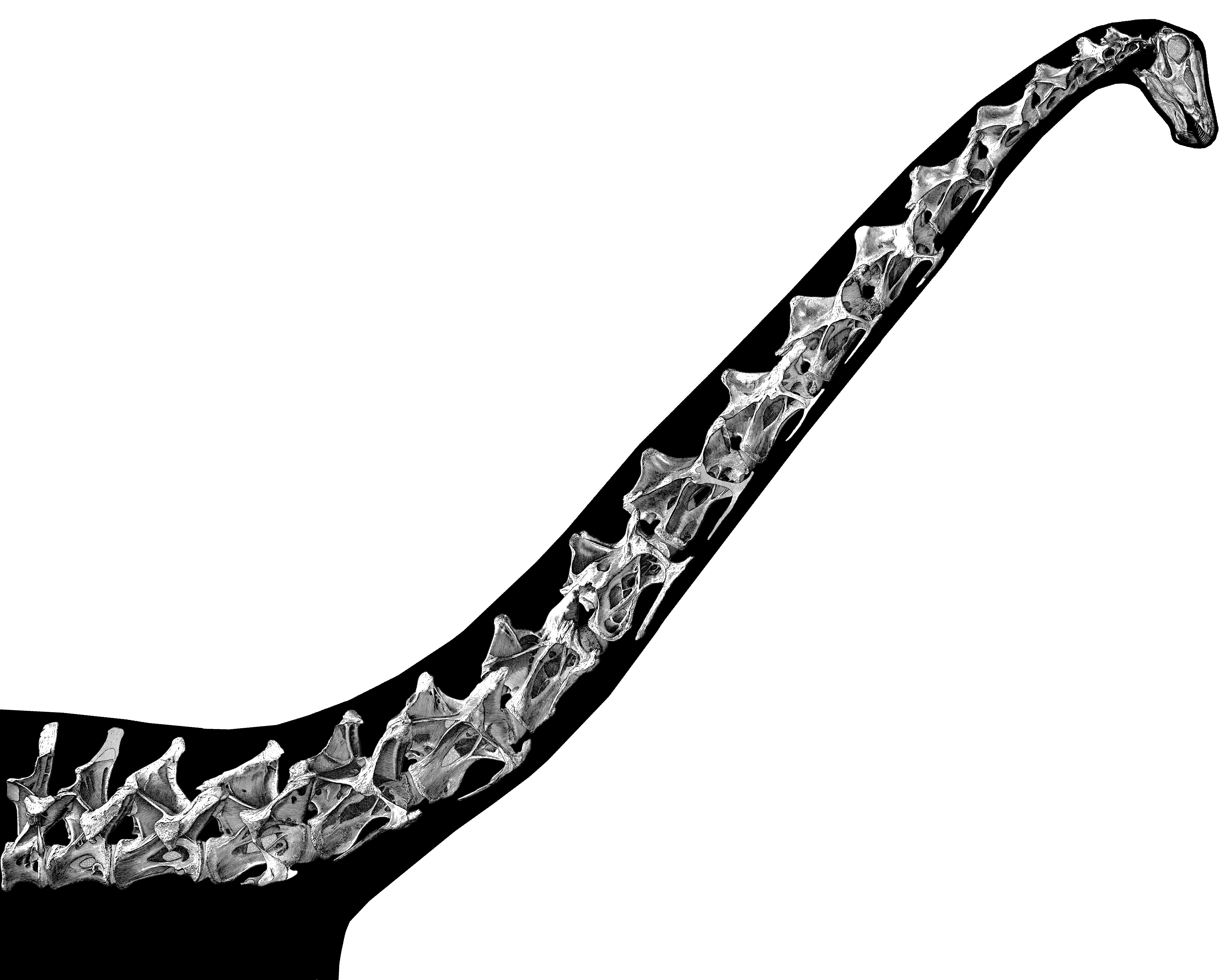 Side-view skeleton with bones and silhouette of a raised Diplodocus neck prepared by Mike Taylor using elements taken from Hatcher (1901: plate III). This shows the probably habitual neck pose of Diplodocus.